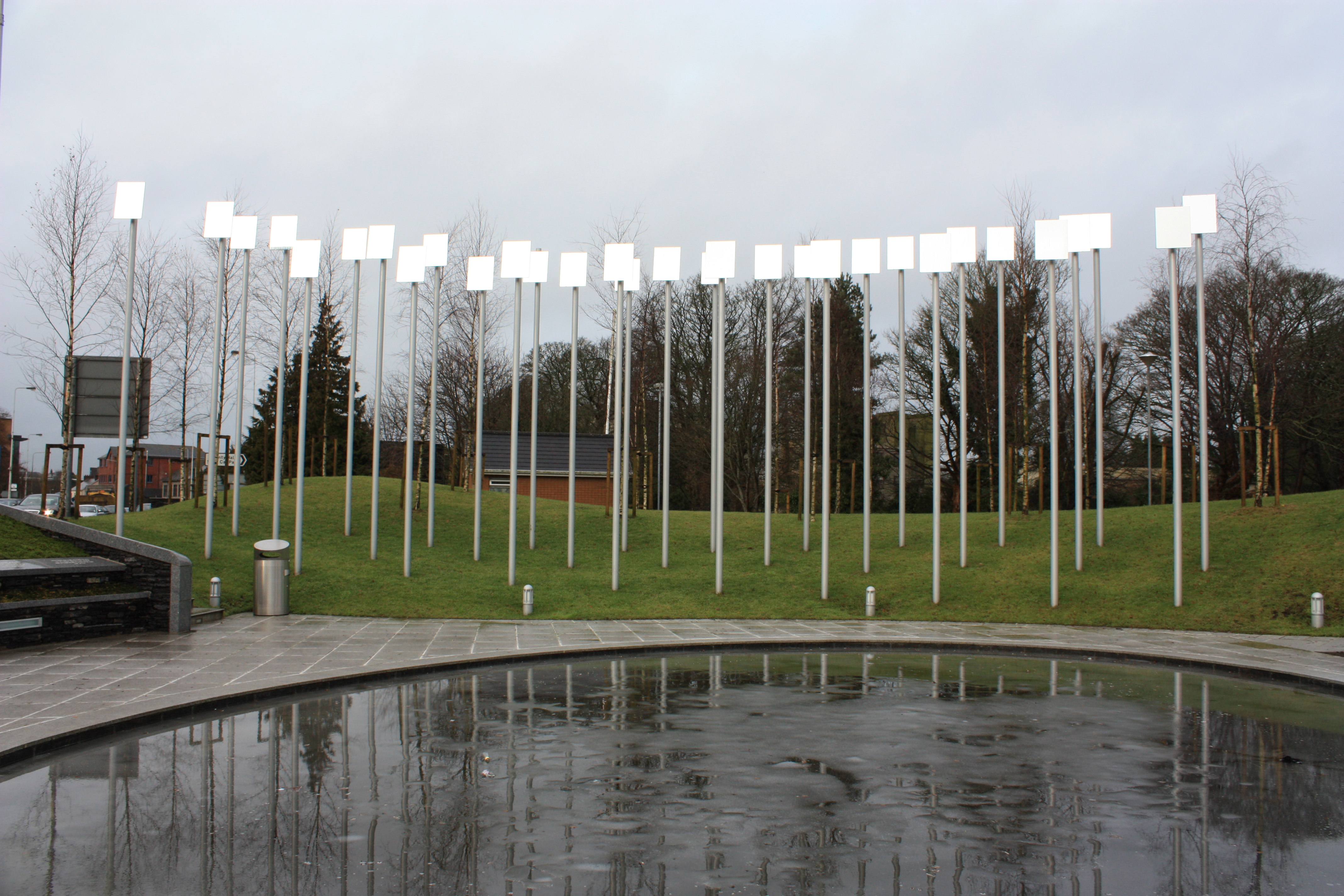 Omagh Bomb Memorial (Garden of Light), Drumragh Avenue, Omagh, County Tyrone, Northern Ireland, January 2010